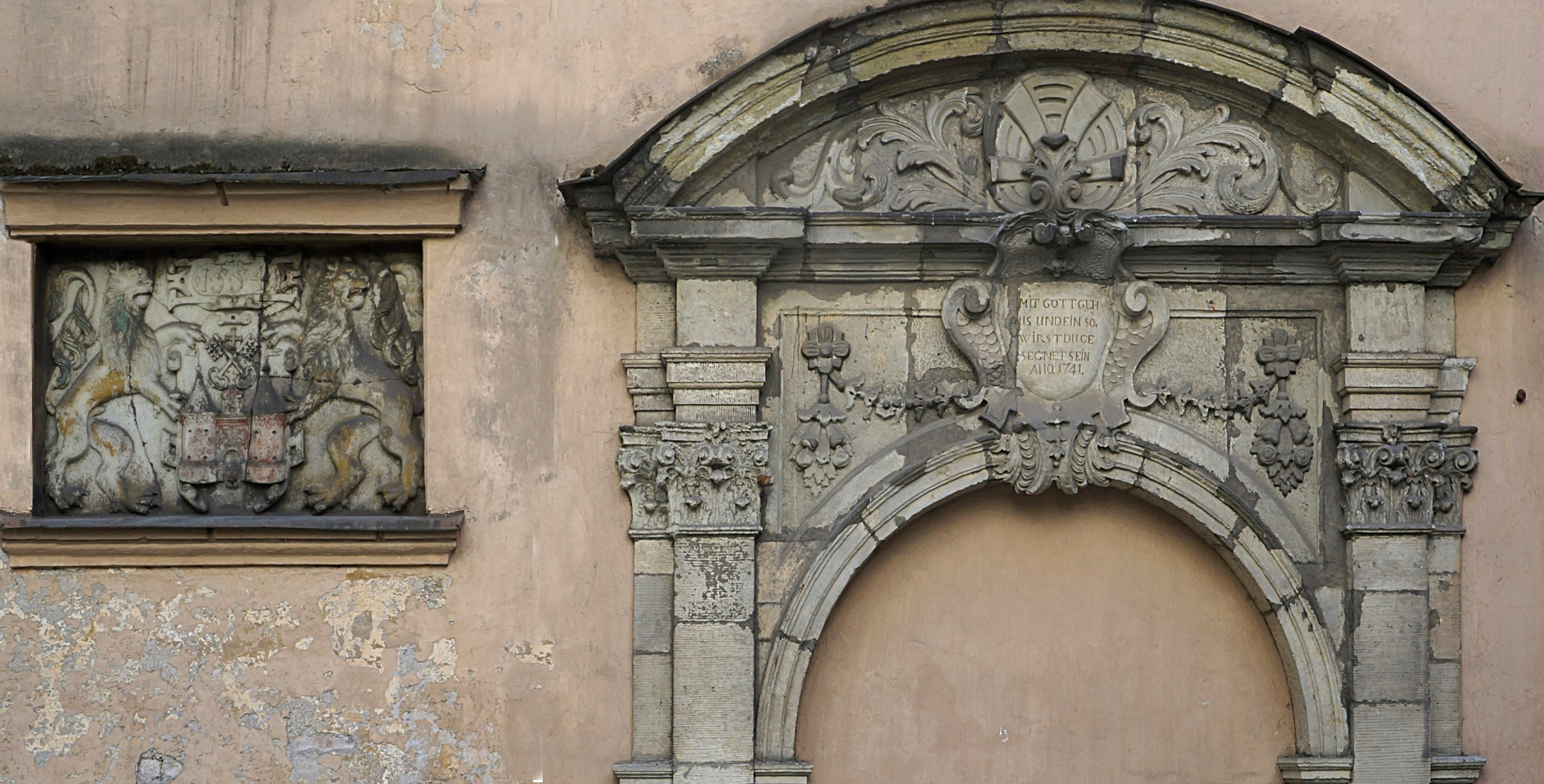 Three Brothers (Riga) Riga, Latvia Latvia. -Courtyard of the Latvian Museum of Architecture Maza Pils is Iela 19, Riga, it houses a collection of medieval architectural curiosities, whose weapons forged from the city of Riga in 1554,.